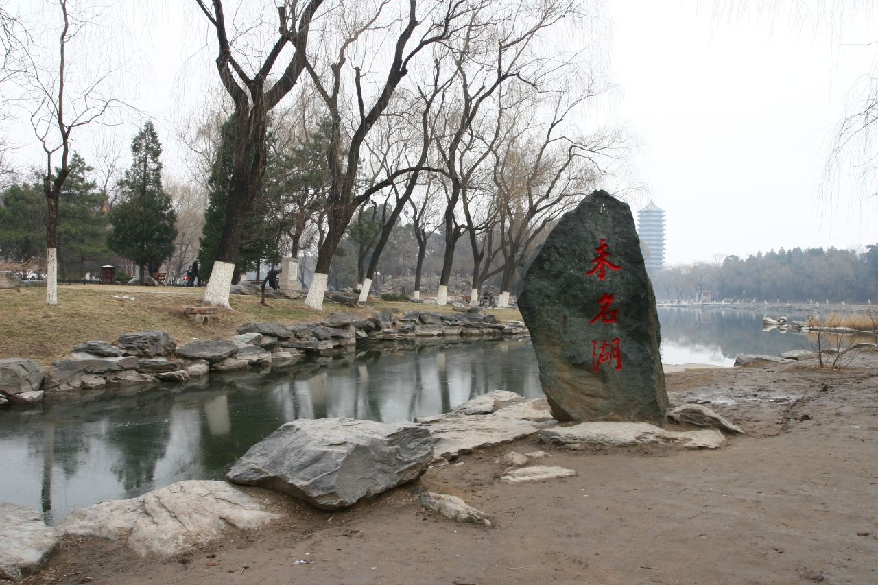 The Peking University campus in Beijing